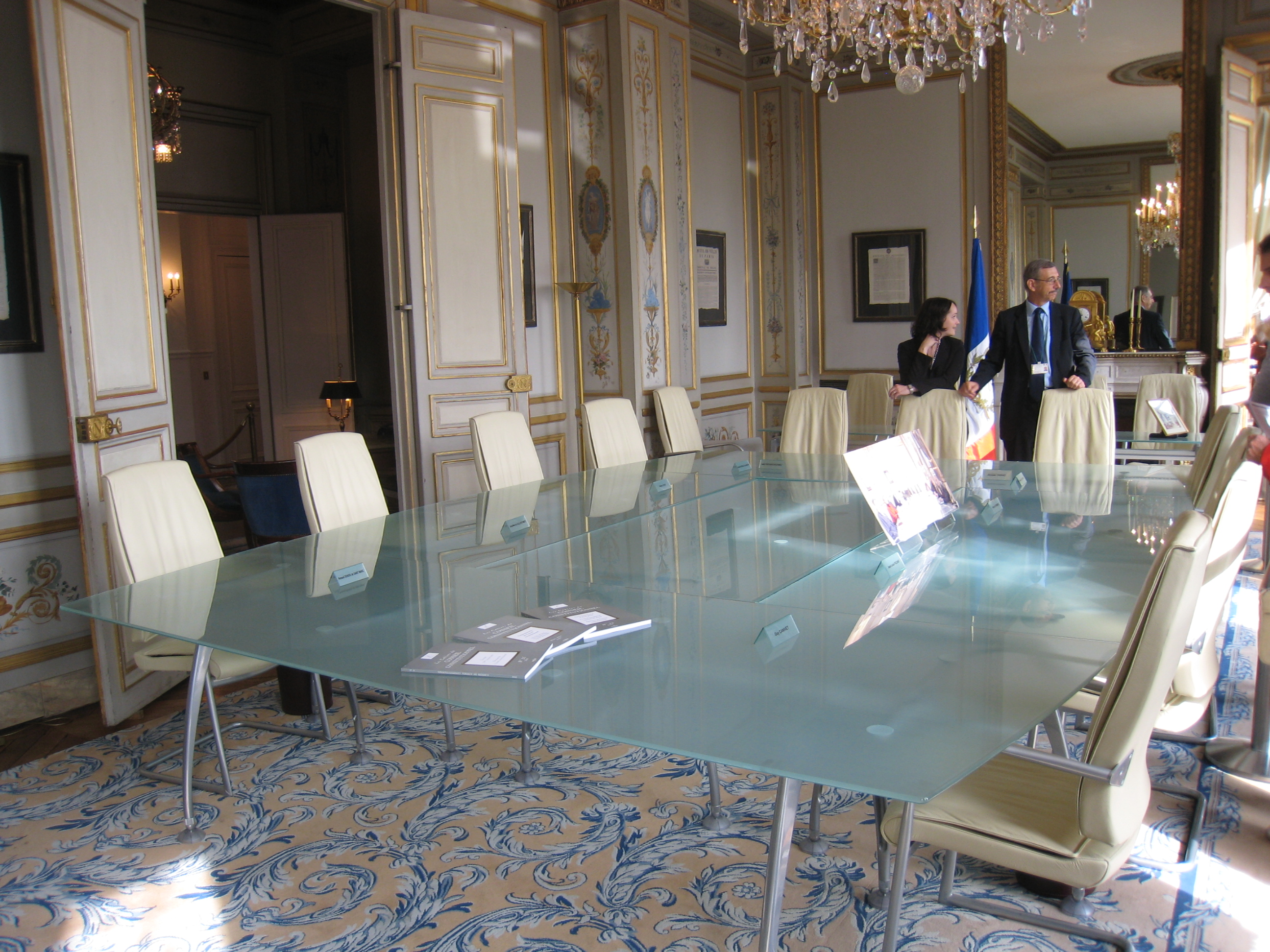 The room where the French Constitutional Council has its meetings. Photo taken during the "Journées du Patrimoine" in 2009.